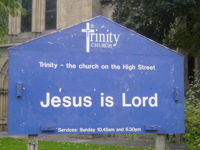 Sign outside Trinity Church, Gosforth, Tyne and Wear